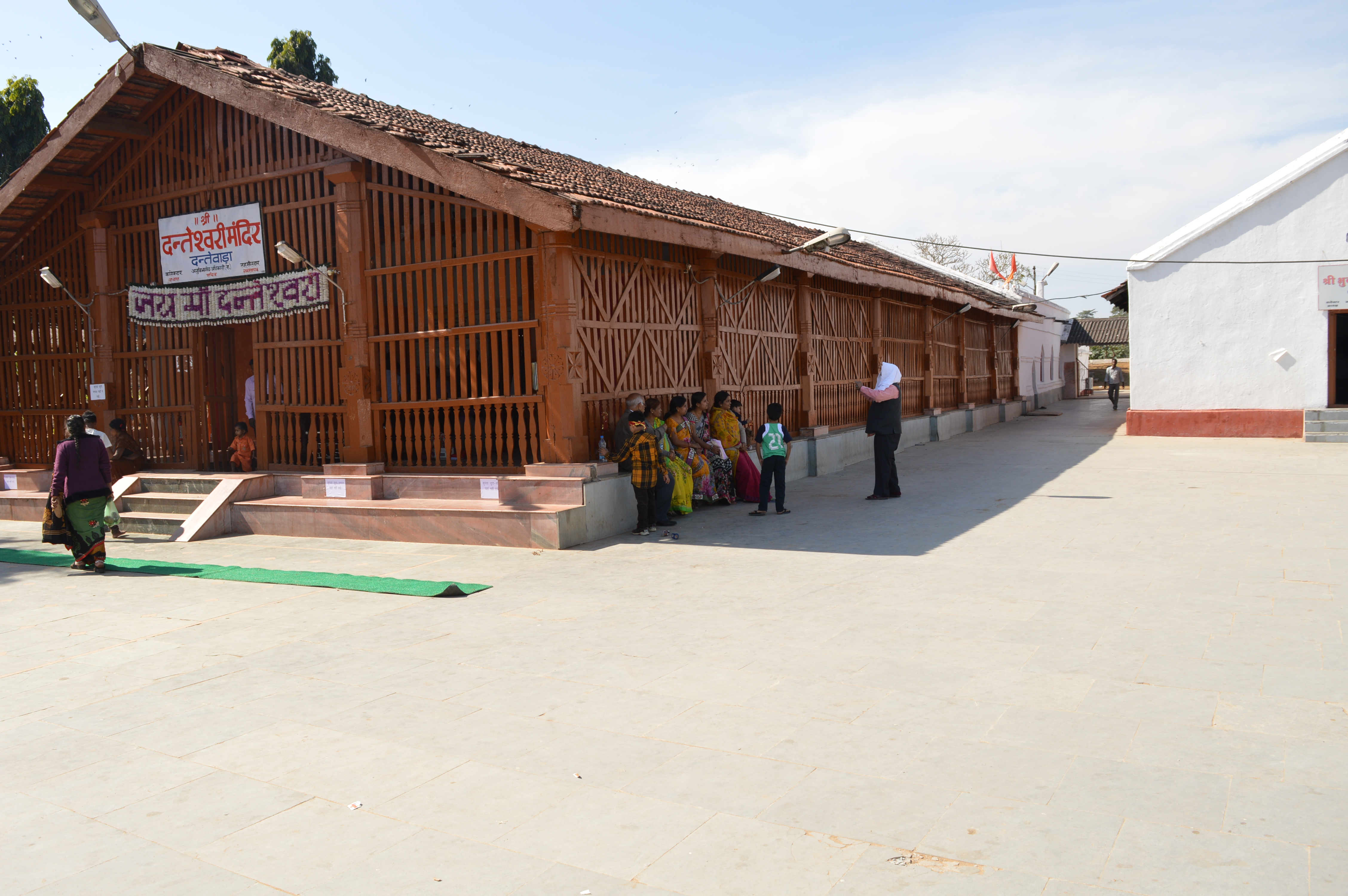 Danteswari Temple